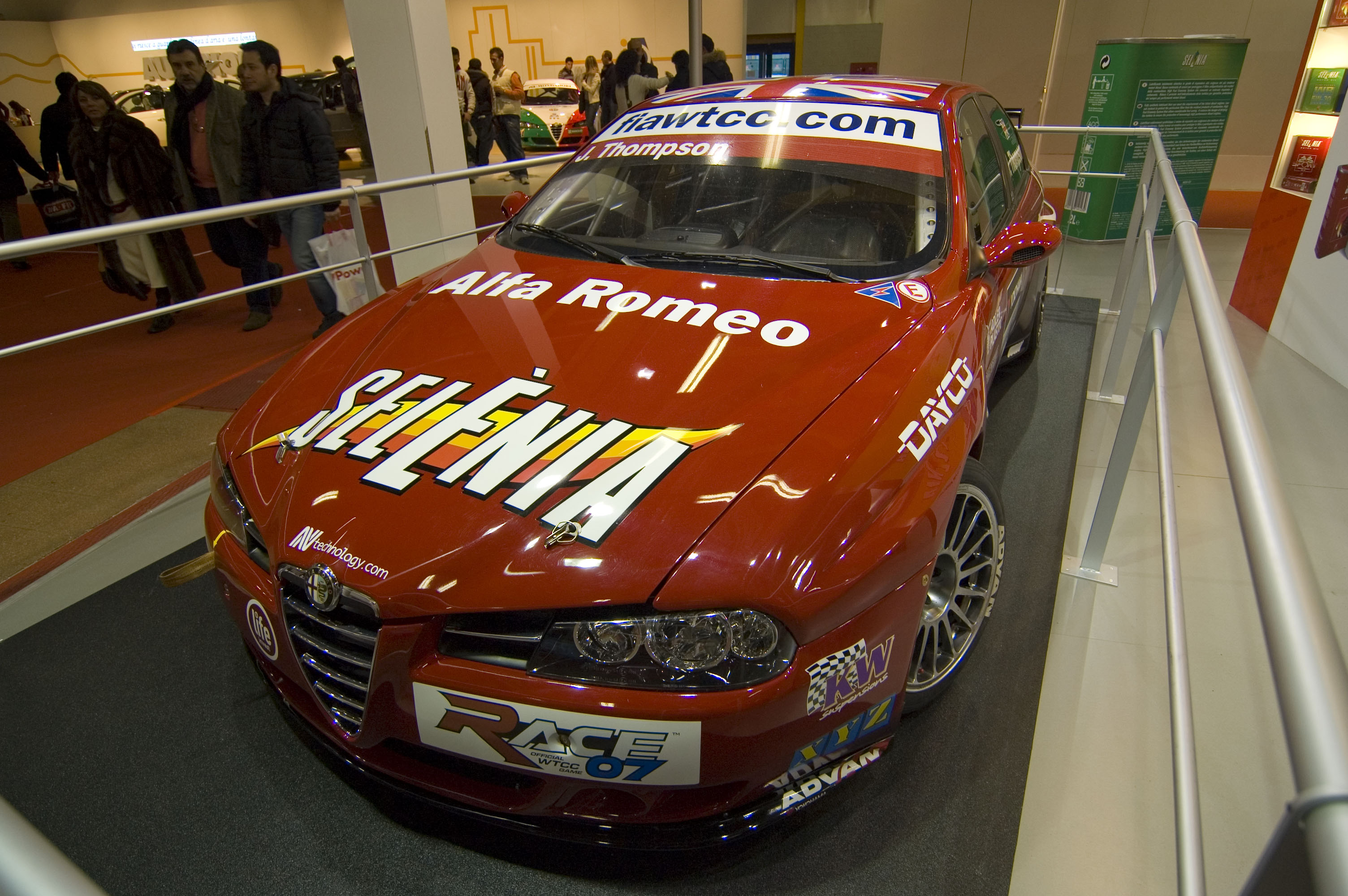 Alfa Romeo 156 Super 2000 at 2007 Motor Show in Bologna, Italy.